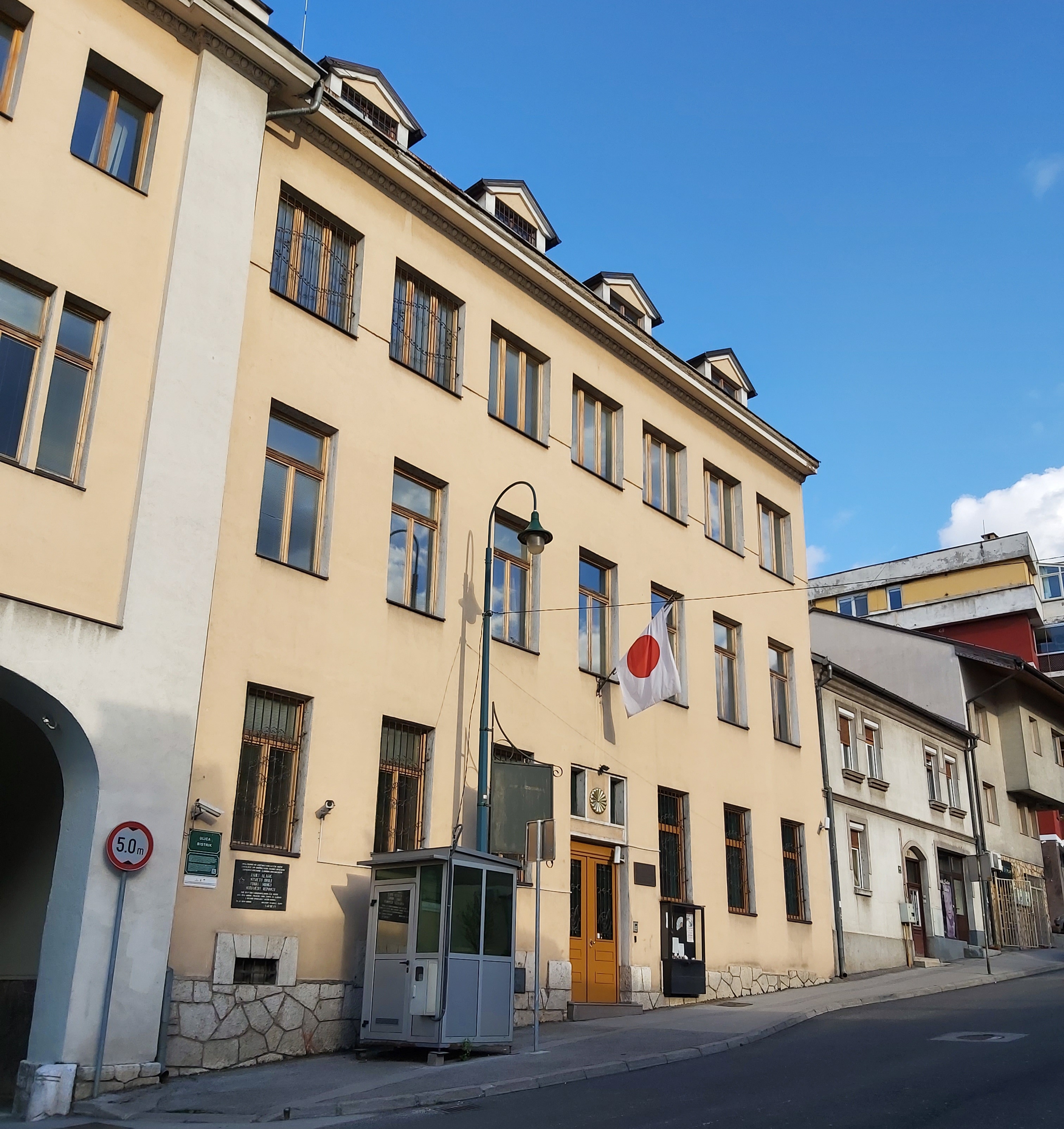 Japanese embassy, Sarajevo